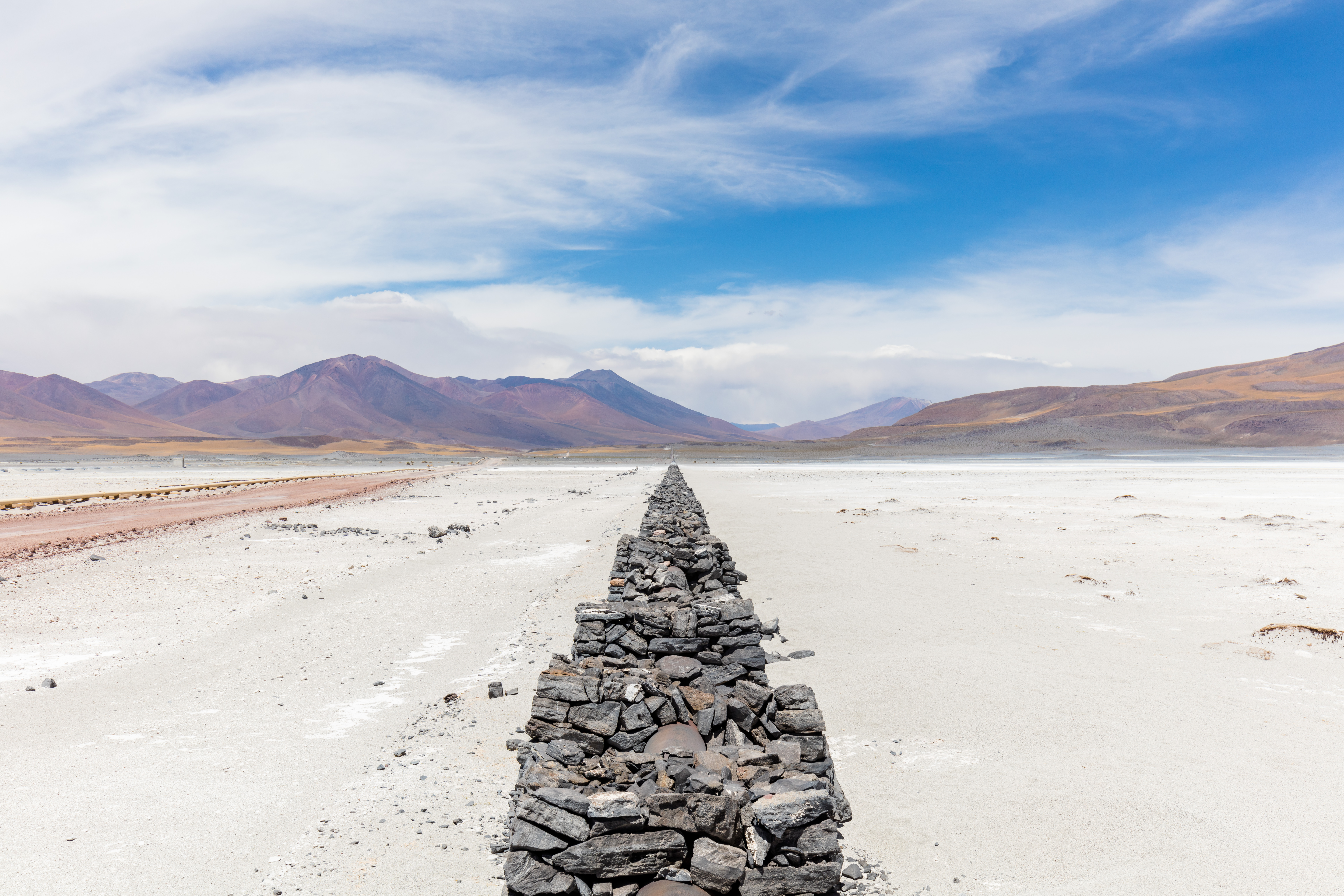 Gas pipeline next to the B-145, province of El Loa, Chile